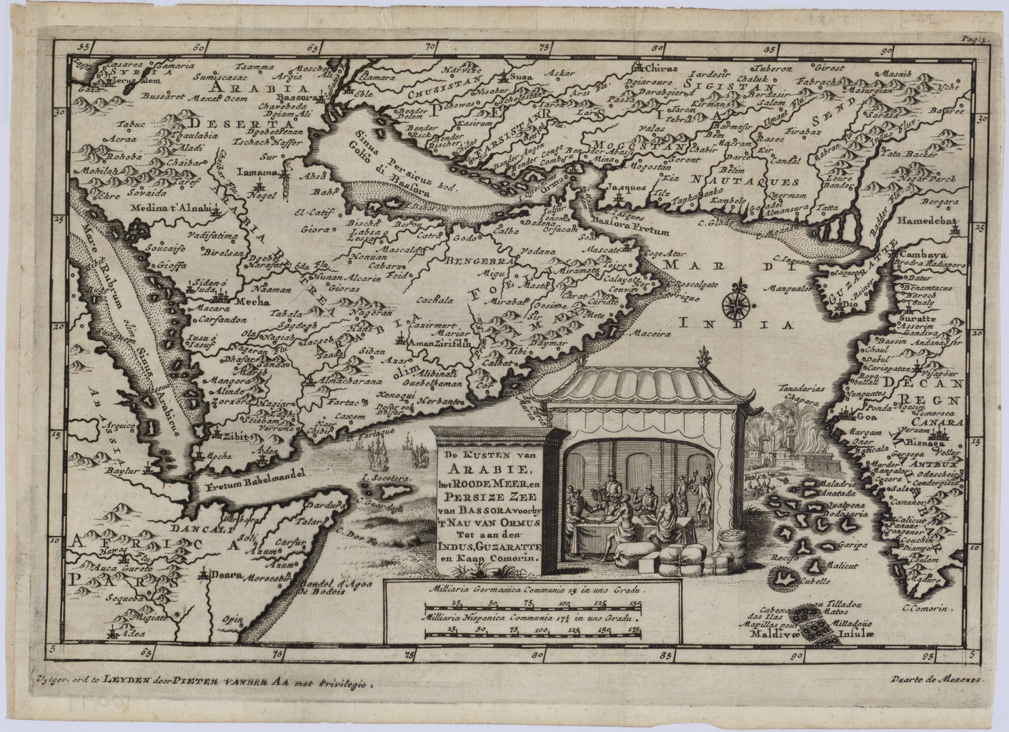 This 1707 map of the Arabian Peninsula and adjacent regions is the work of Pieter van der Aa (1659-1733), a Dutch publisher and bookseller based in Leiden who specialized in reissuing maps acquired from earlier mapmakers. The map appears to be based on an earlier Portuguese work, and uses a mix of Dutch, Latin, and Portuguese for titles and place names. The map covers only the eastern and central parts of the peninsula, which is shaped differently than shown on many other maps. The map shows four rivers on the Arabian (western) side, but they reach more deeply into the peninsula than on other maps. The map gives three names for Al Ahsa: “Ahsa,” “Labsa,” and “Lessa.” The Arabian Gulf is called the Persian Gulf or Gulf of Basra. The Strait of Hormuz is called Fretum Bassora or Strait of Basra. Arabian Gulf; Arabian Peninsula; Persian Gulf